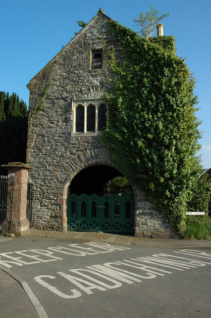 Priory Gatehouse, Usk The Priory Gatehouse is situated near the entrance to the Priory Church of St Mary, the gatehouse is thought to date from the 16th century, possibly dating from after the Dissolution.